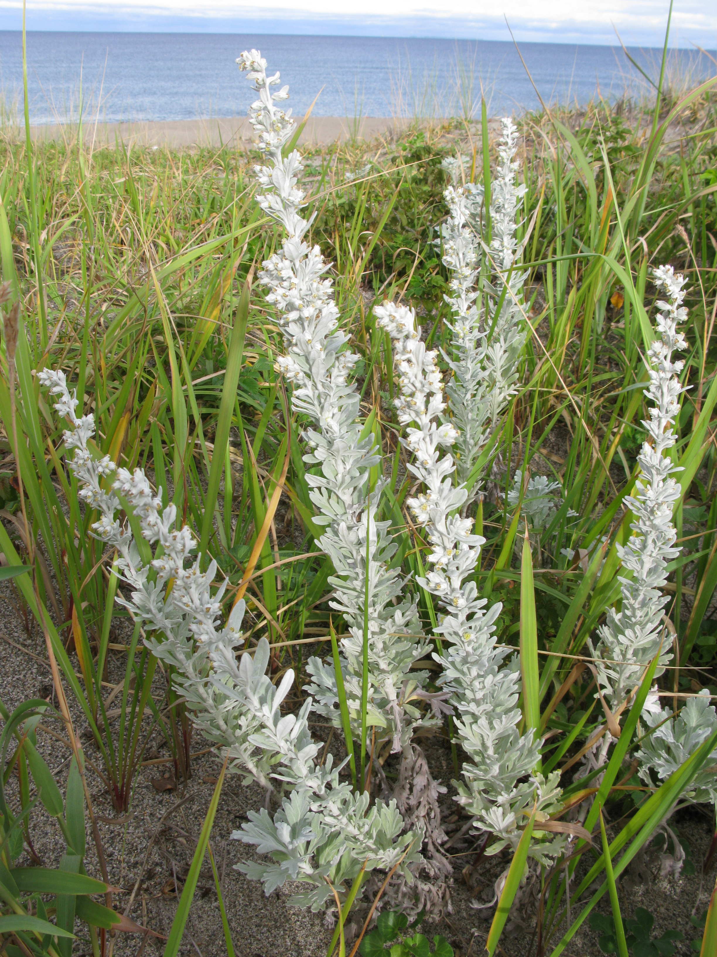 Artemisia stelleriana, Syonai area, Yamagata pref., Japan